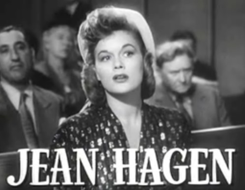 Cropped screenshot of Jean Hagen from the trailer for the film Adam's Rib.